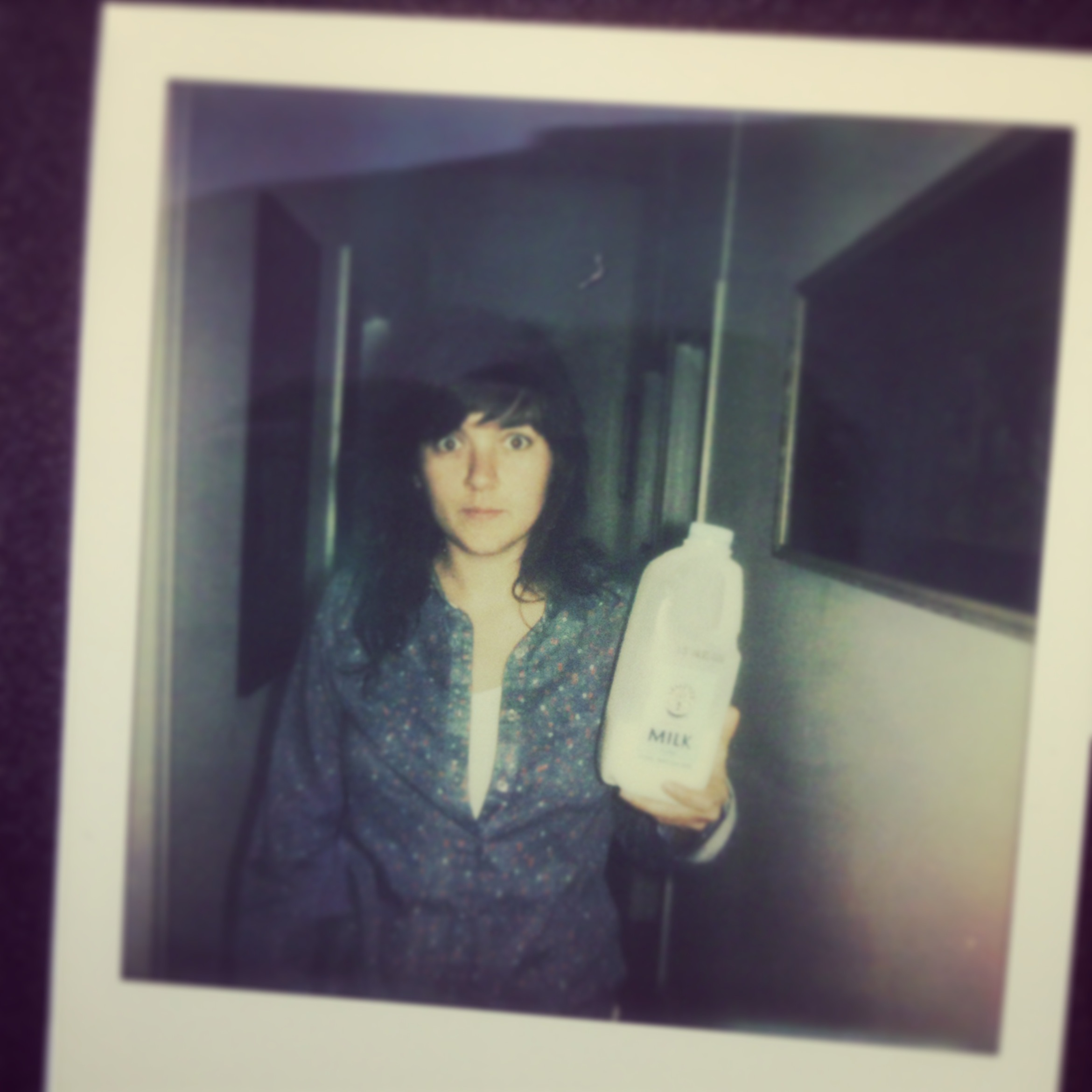 Courtney Barnett, Milk! Records